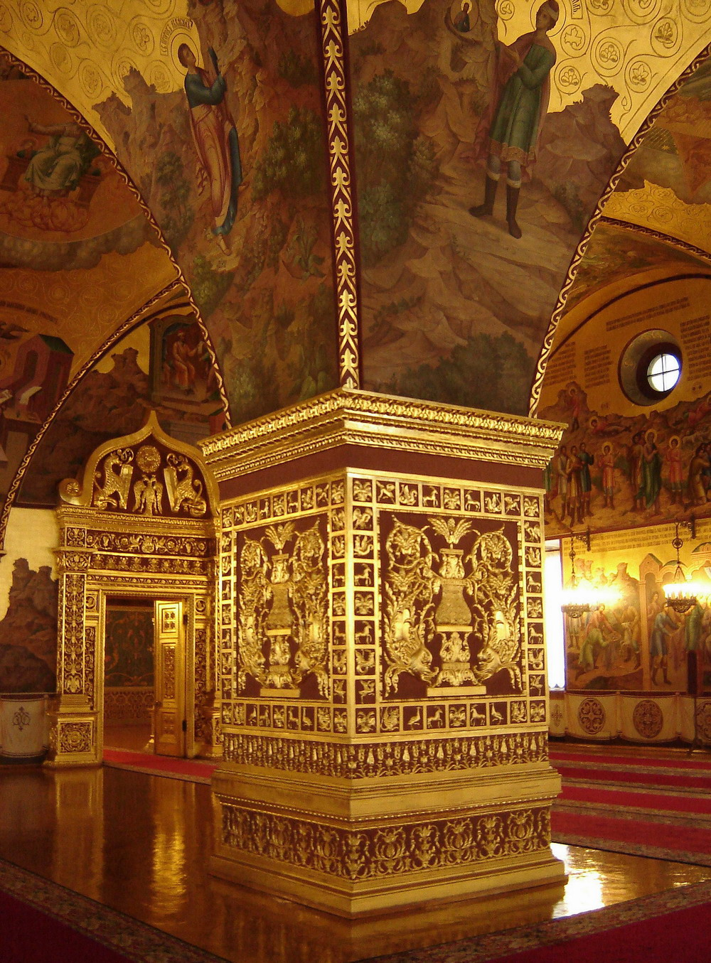 The central pillar of the Palace of Facets. Moscow Kremlin, Russia.